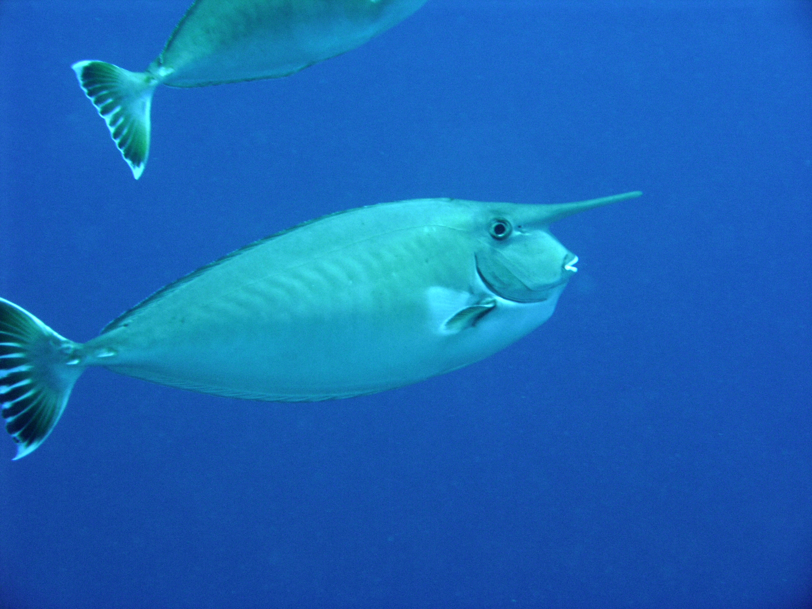 Image of Whitemargin unicornfish. Naso annulatus. Taken off Bunaken Island, North Sulawesi, Indonesia.